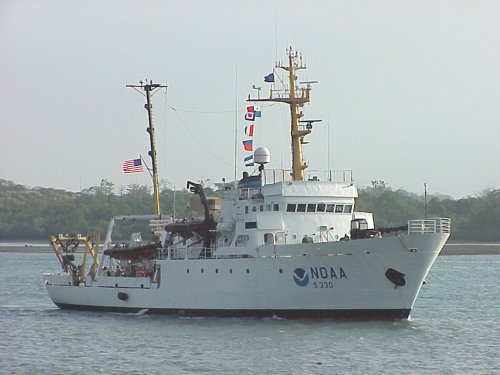 National Oceanic and Atmospheric Administration survey ship NOAAS McArthur (S 330)